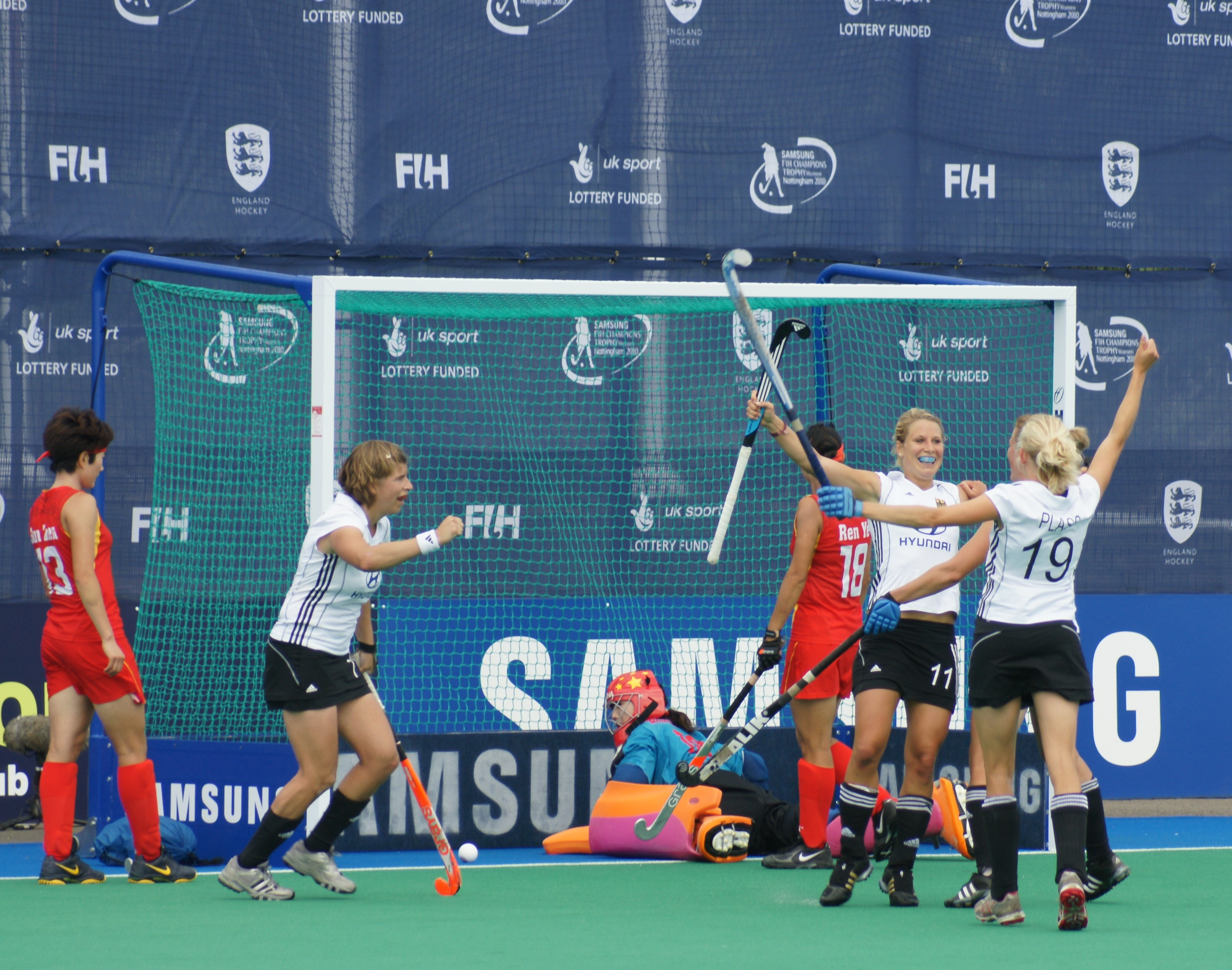 WCT 2010 China v Germany 162